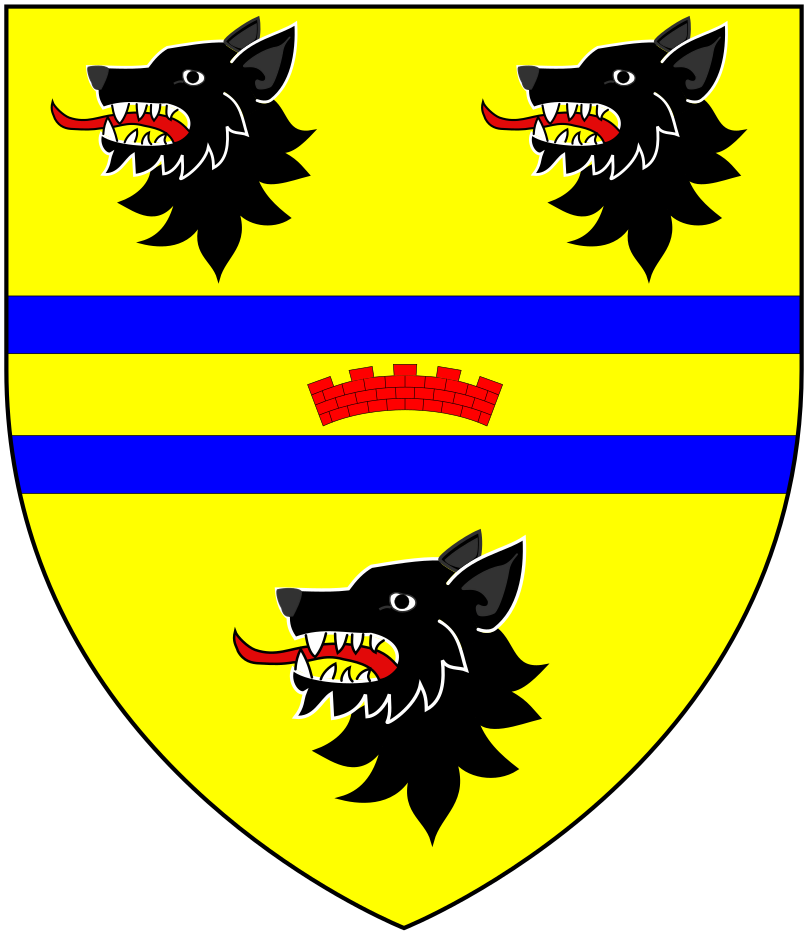 Arms of Seale (Seale baronets of Mount Boone, Devon): Or, two barrulets azure between three wolf's heads erased sable in the fess point a mural crown gules (Kidd, Charles, Debrett's peerage & Baronetage 2015 Edition, London, 2015, p.B716)